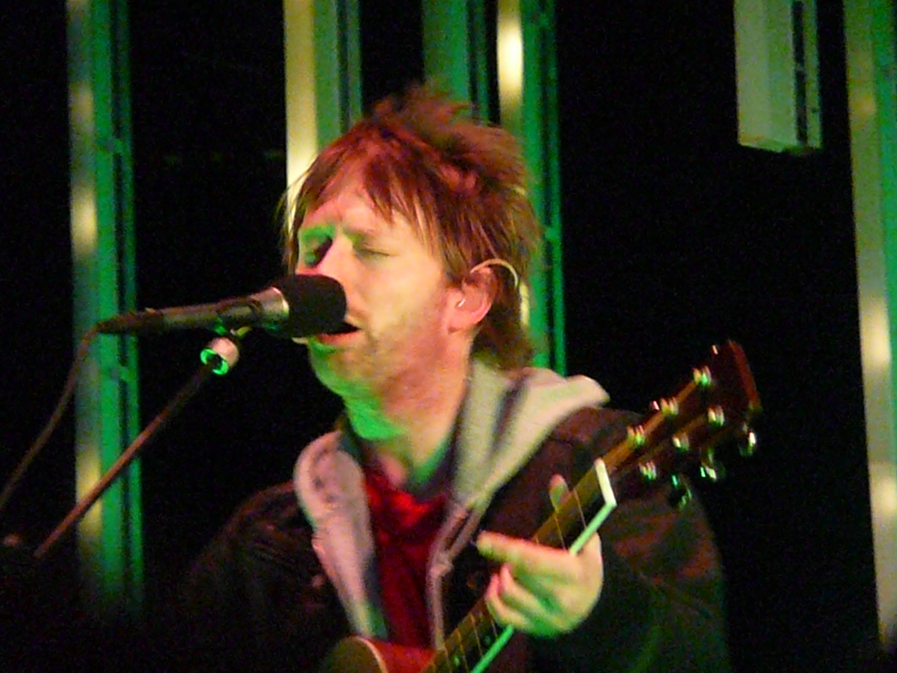 Thom Yorke of Radiohead.